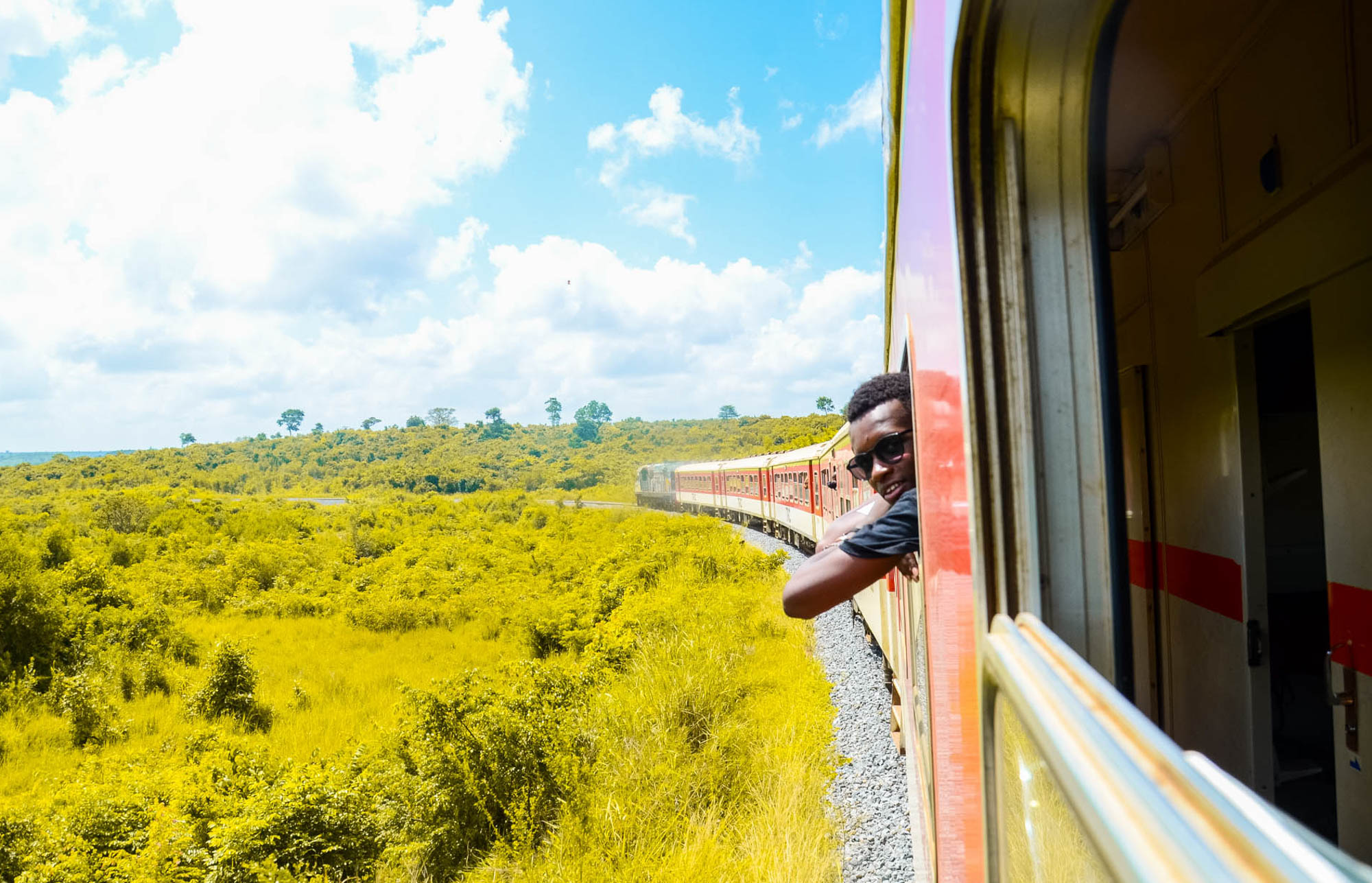 The Tanzania Railways Corporation (TRC) is a state-owned enterprise that runs one of Tanzania's two main railway networks. When the East African Railways and Harbours Corporation was dissolved in 1977 and its assets divided between Kenya, Tanzania and Uganda, TRC was formed to take over its operations in Tanzania. This is an image with the theme "Africa on the Move or Transport" from: Tanzania